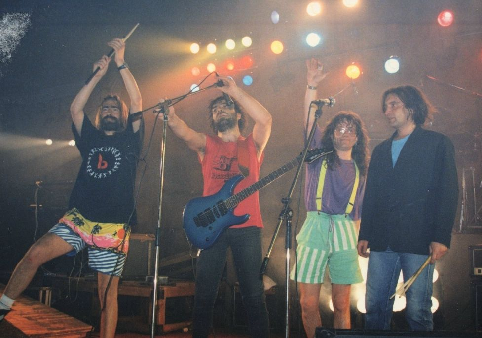 Live in Universiada hall